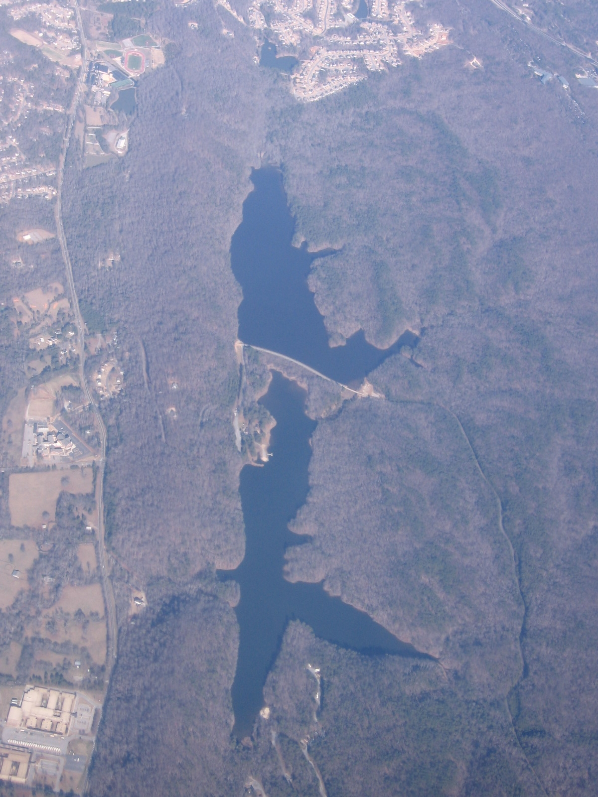 Lakes at Oak Mountain State Park, Alabama, USA